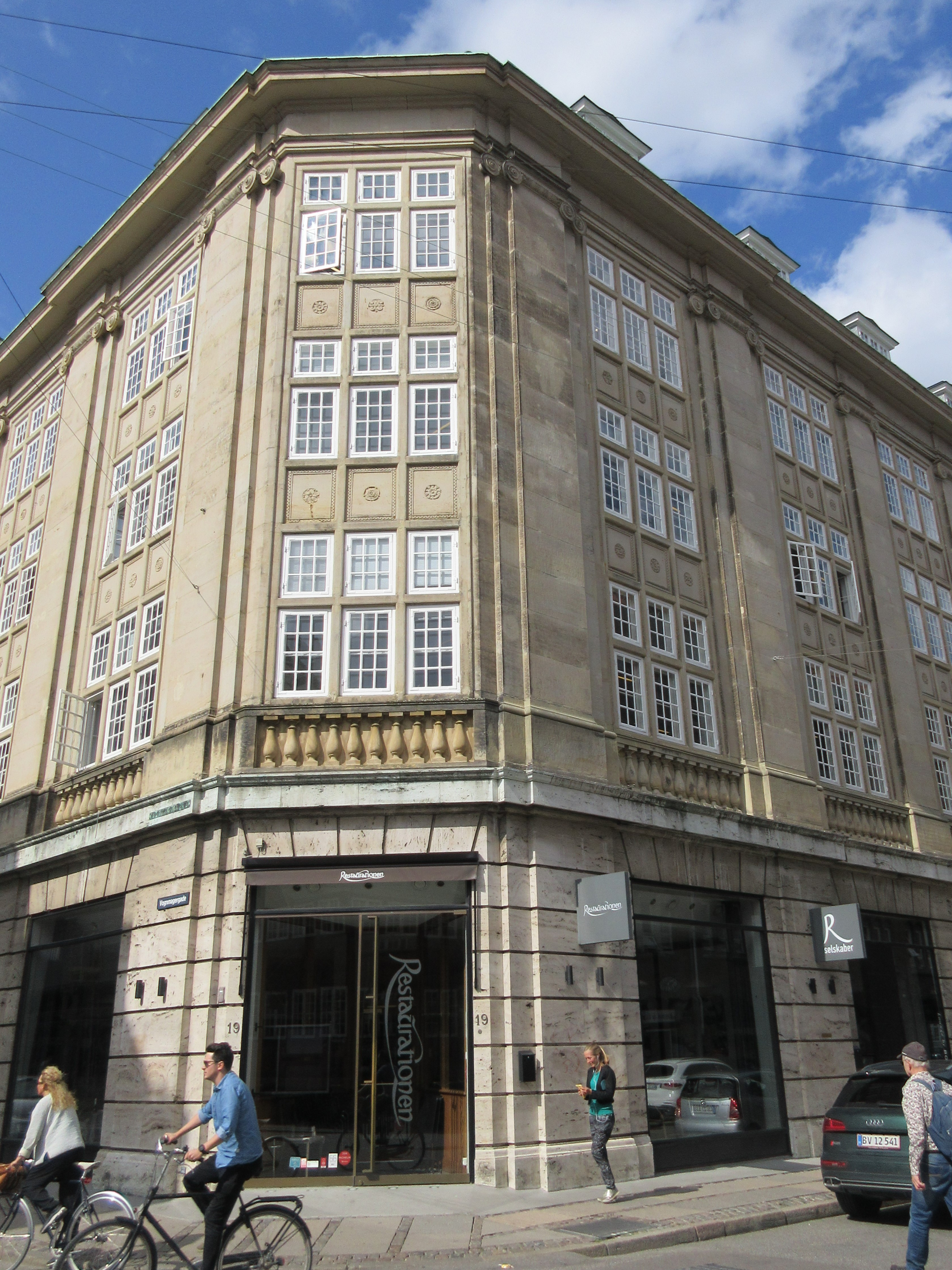 Møntergården at Møntergade/Vognmagergade in Copenhagen, Denmark